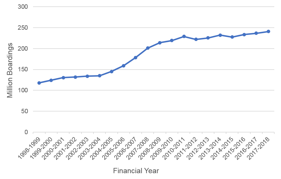 Based on previous work by Liamdavies and previous work by Biatch Data sources: 2009 media release PTV annual reports PTV media release